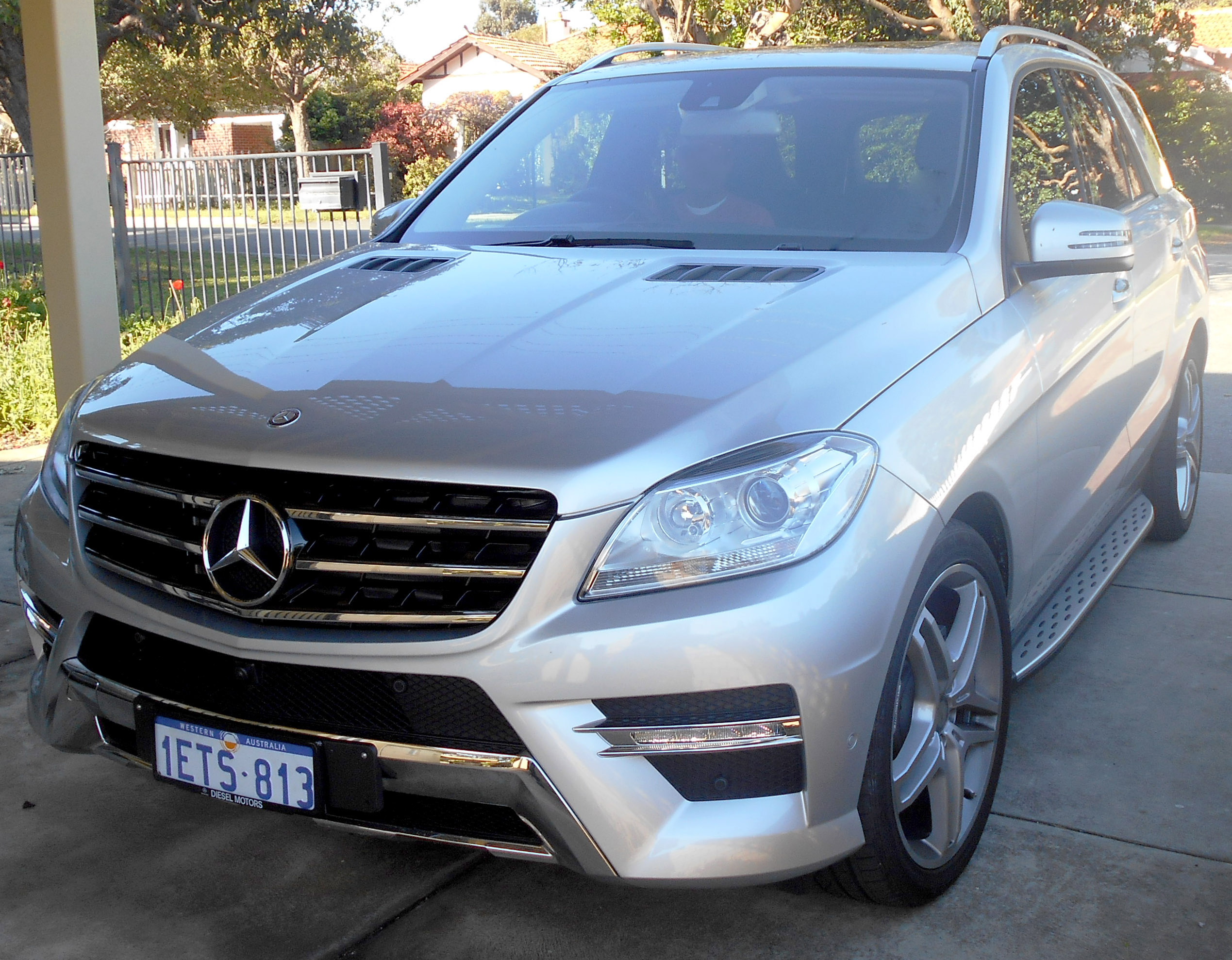 2015 Mercedes-Benz ML 250 (W 166 MY15) BlueTEC wagon. Photographed in Nedlands, Western Australia, Australia.